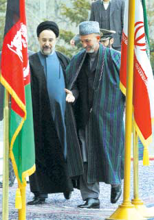 Mohammad Khatami and Hamid Karzai -official Visitation- February 25, 2002